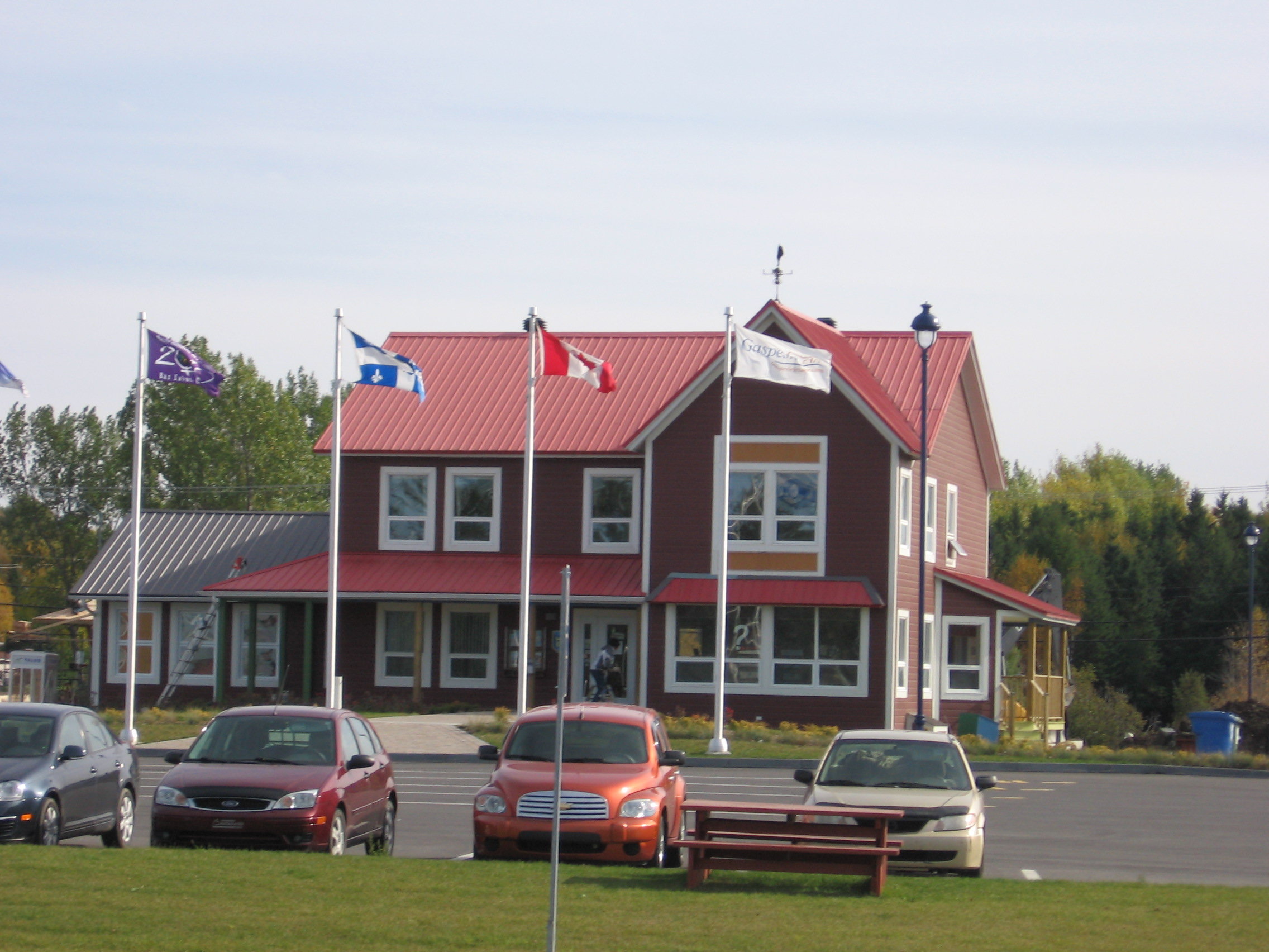 Mont-Joli tourist office